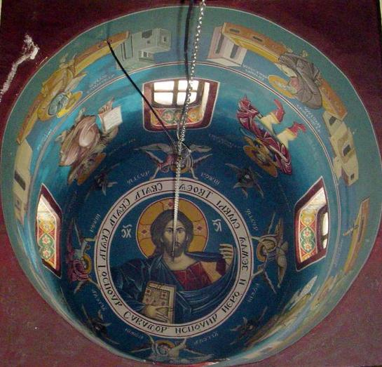 Christ Pantocrator in St. Nicholas Church in Mali Vlaj, Macedonia